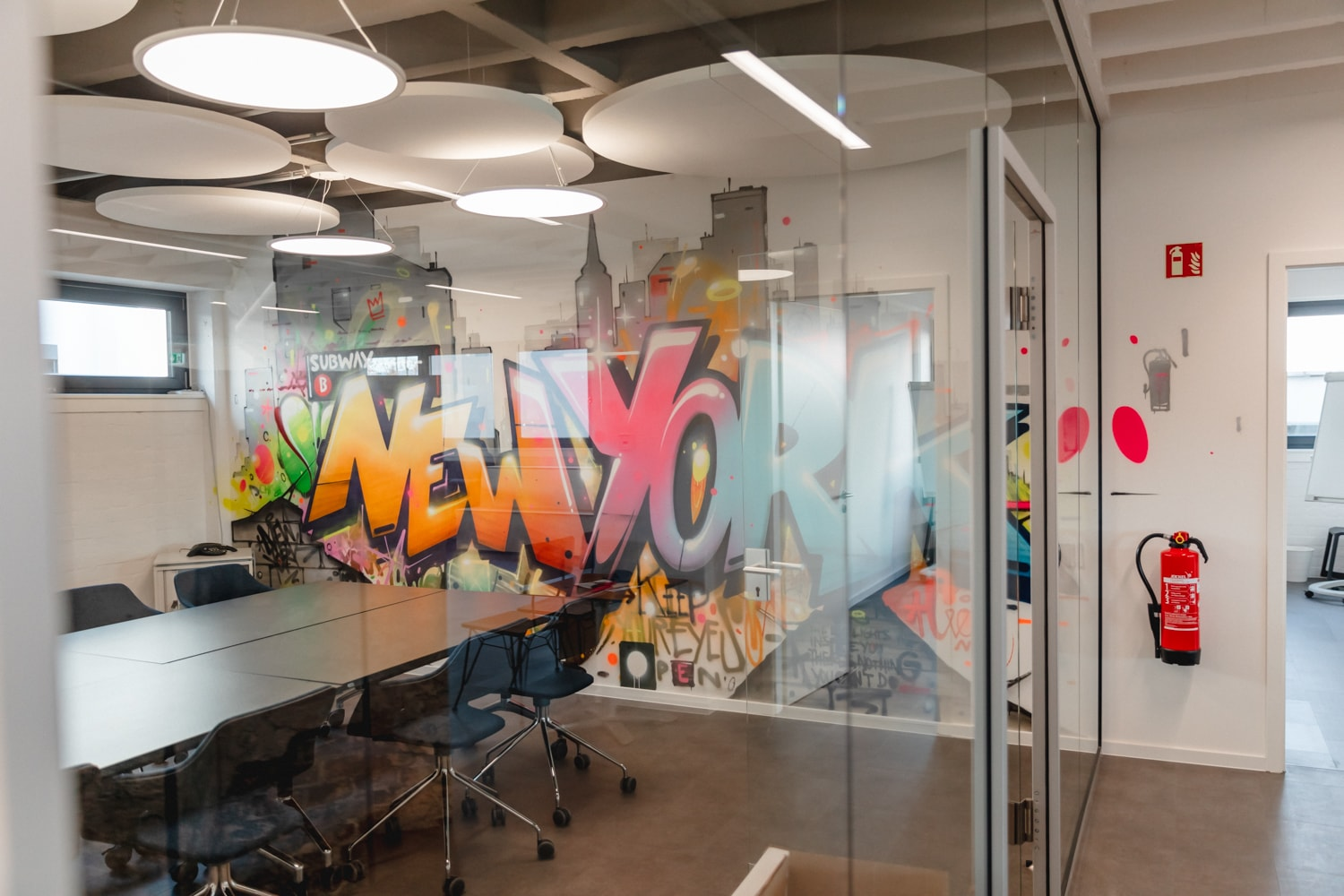 ltur office